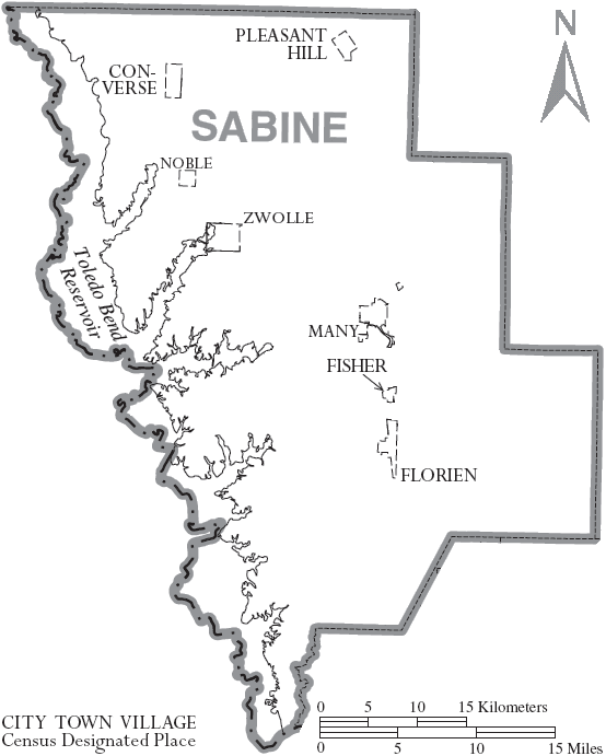 Map of Sabine Parish, Louisiana, United States with municipal boundaries